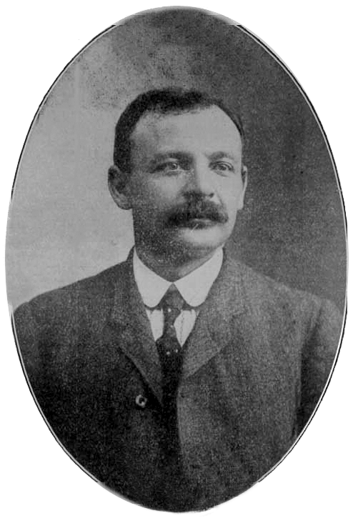 American labour activist William Trautmann.